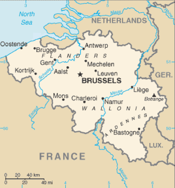 Belgium map from CIA World Factbook (since 8 May 2006), converted from original GIF format